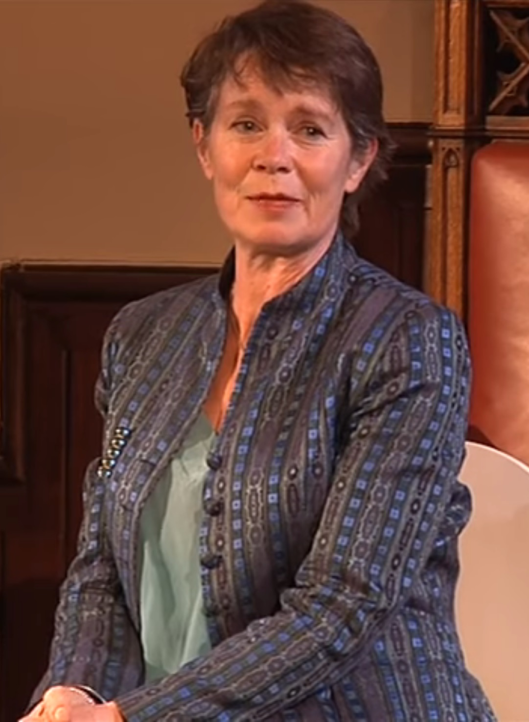 Date recorded: 17/04/2011 Celia Imrie, adored for her characters in Acorn Antiques, Dinnerladies, Calendar Girls and Nanny McPhee tells her extraordinary and highly entertaining life story, The Happy Hoofer. From finding herself with half the scenery stuck to her cardigan, or being kidnapped on the way to location, she somehow emerges from the chaos unscathed with a sense of mischief, fun and unruffled determination.